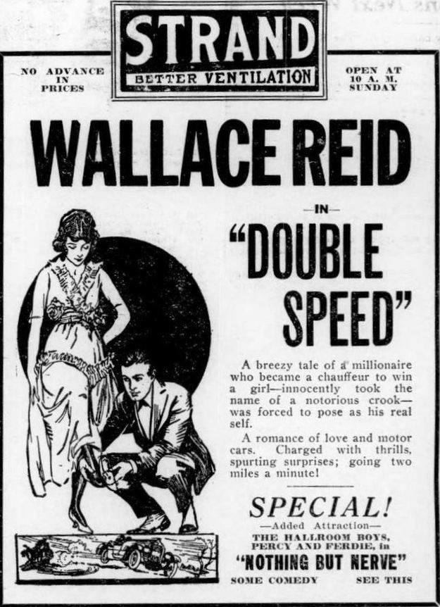 Newspaper ad for the American comedy drama film Double Speed (1920) with Wallace Reid, on page 7 of the March 6, 1920 Duluth Herald.